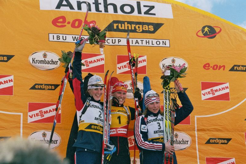 Bailly, Wilhelm & Akhatova on a podium